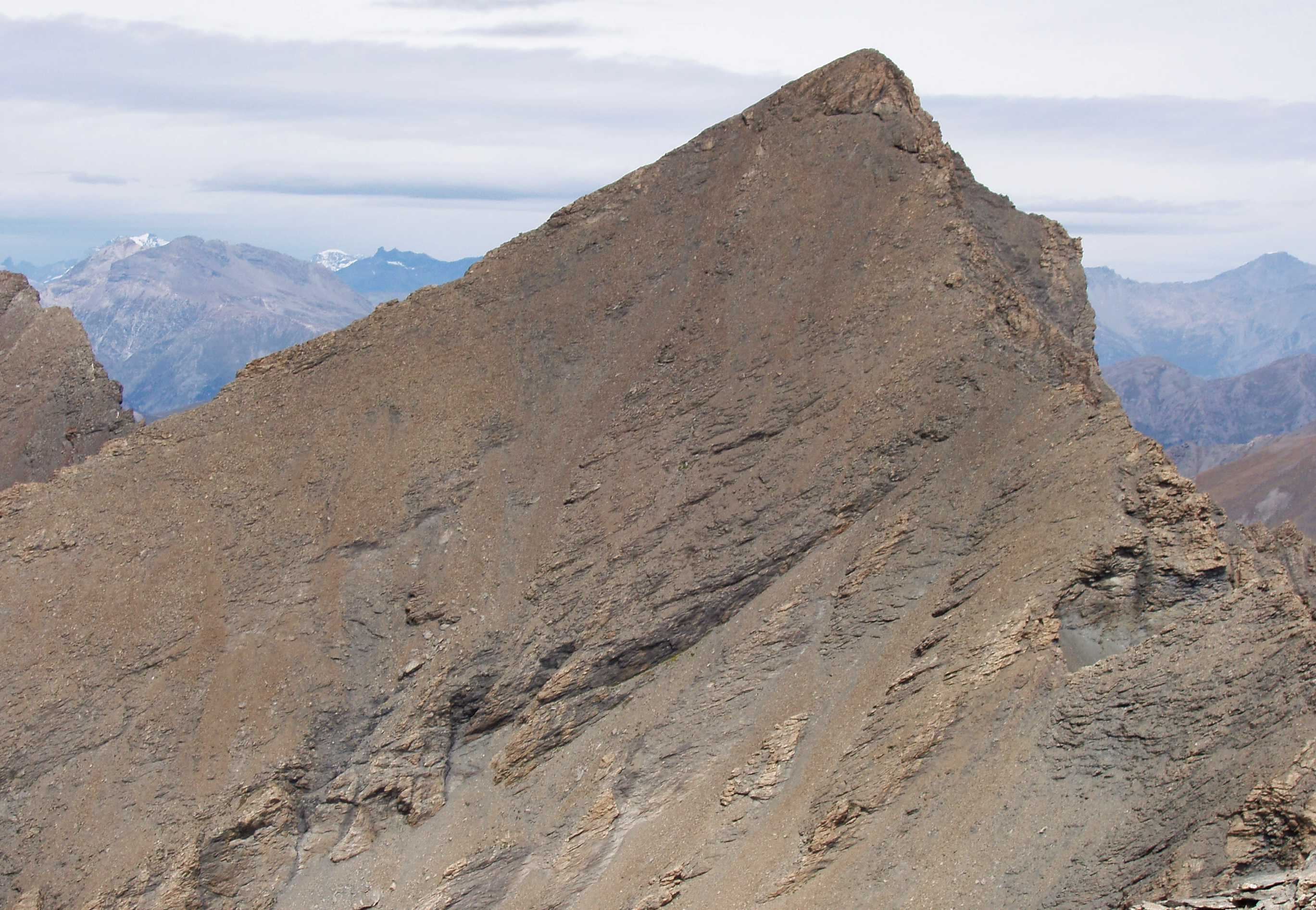 Mount Platasse from Mount Giornalet (TO, Italy)